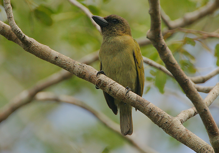 A plain green unobtrusive barbet of East African coastal forest. Image taken at Arabuko-Sokoke Forest, coastal Kenya.